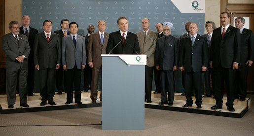 Tony Blair with world leaders making an announcement following the July 7th 2005 terrorist attacks in London.